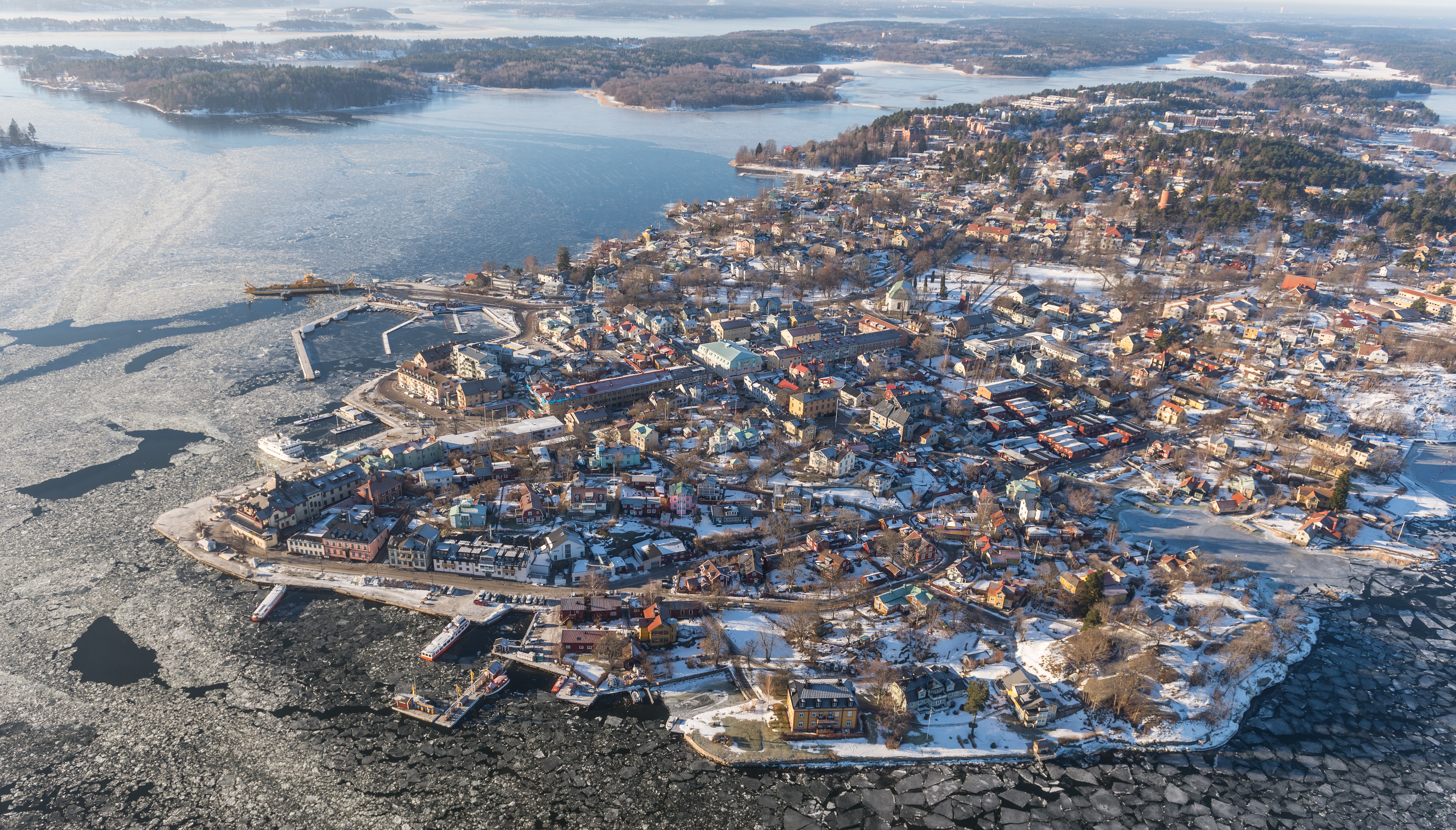 Vaxholm.